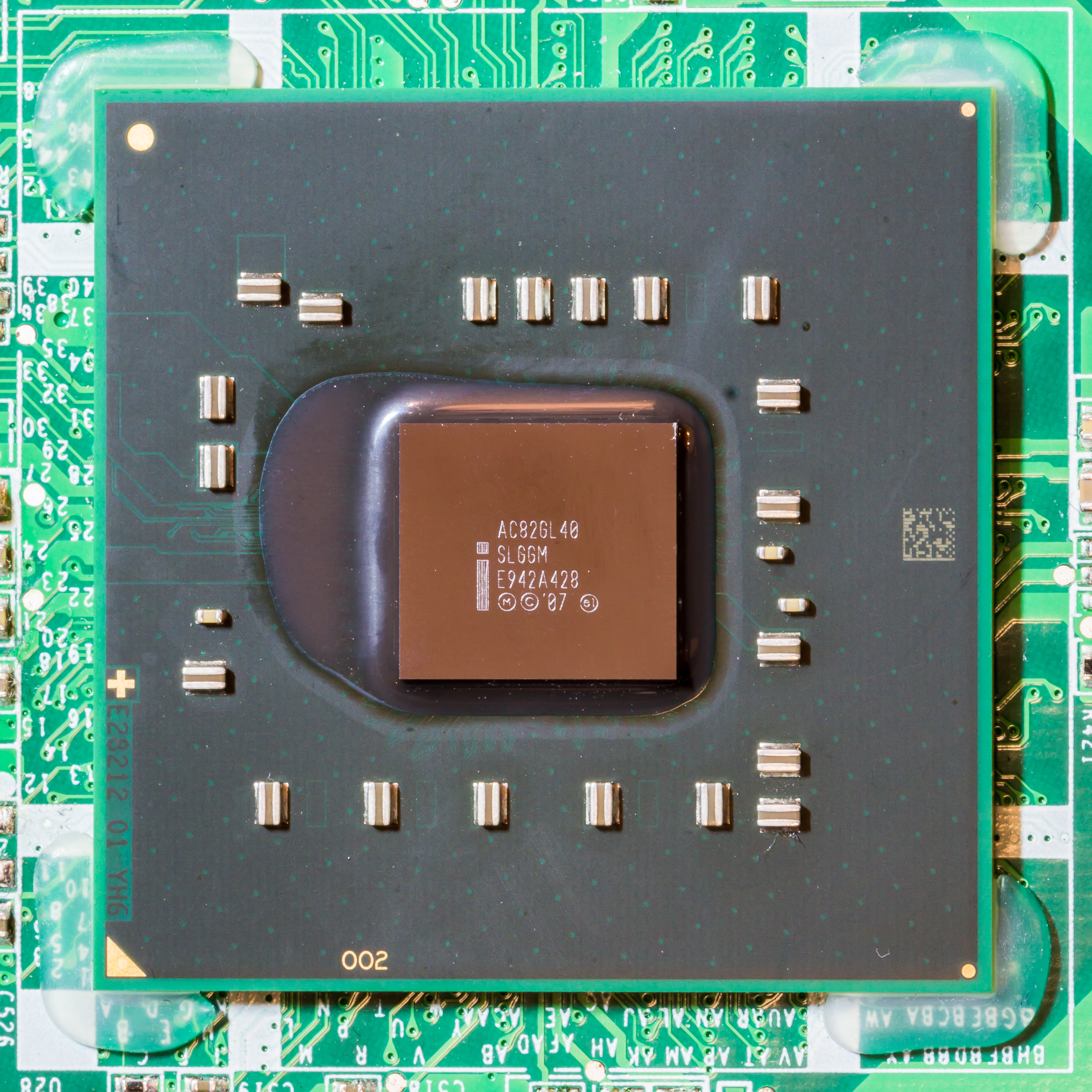 Intel 82GL40 Graphics and Memory Controller Hub - GMCH AC82GL40-SLGGM